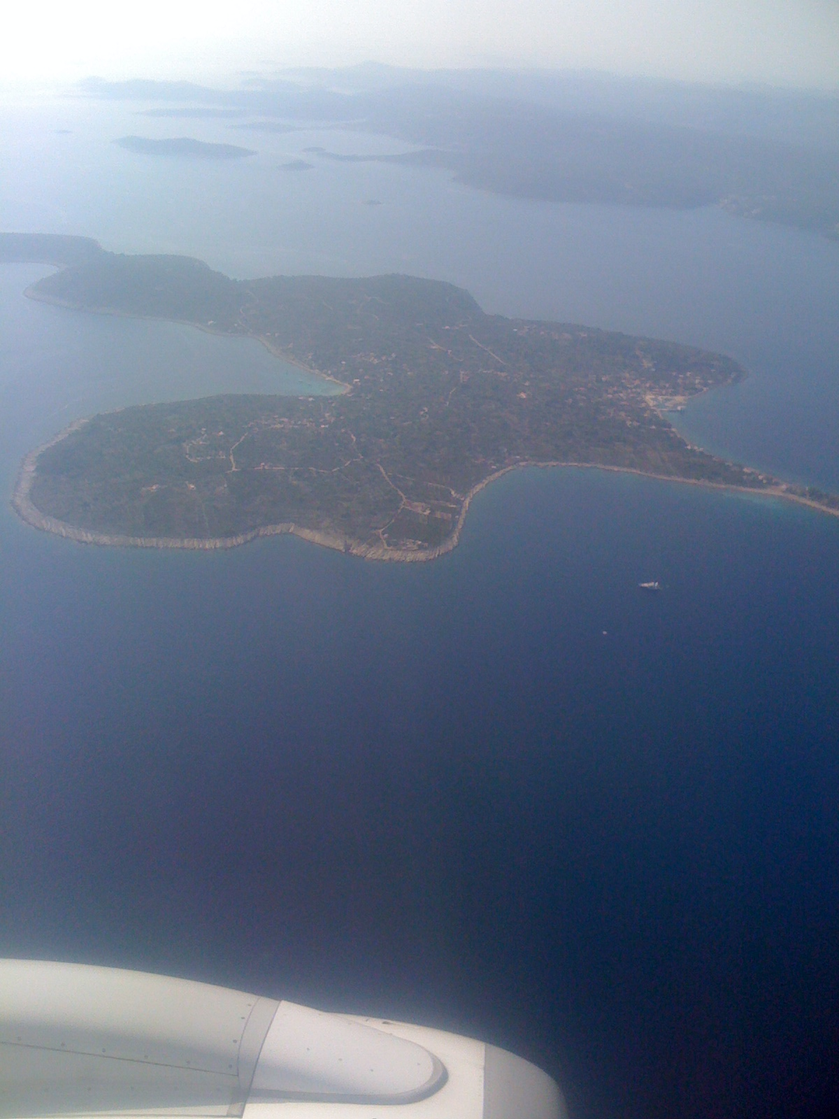 Otok